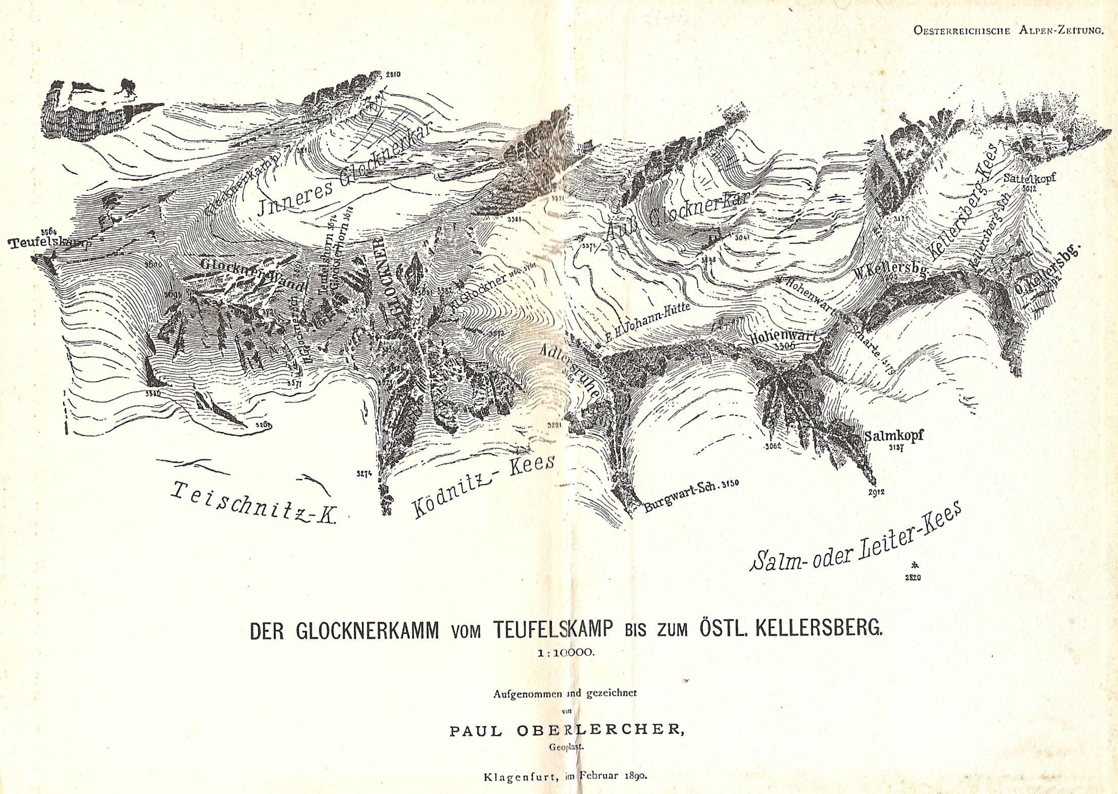 Map of Glocknerkamm by Geoplast Paul Oberlercher 1890